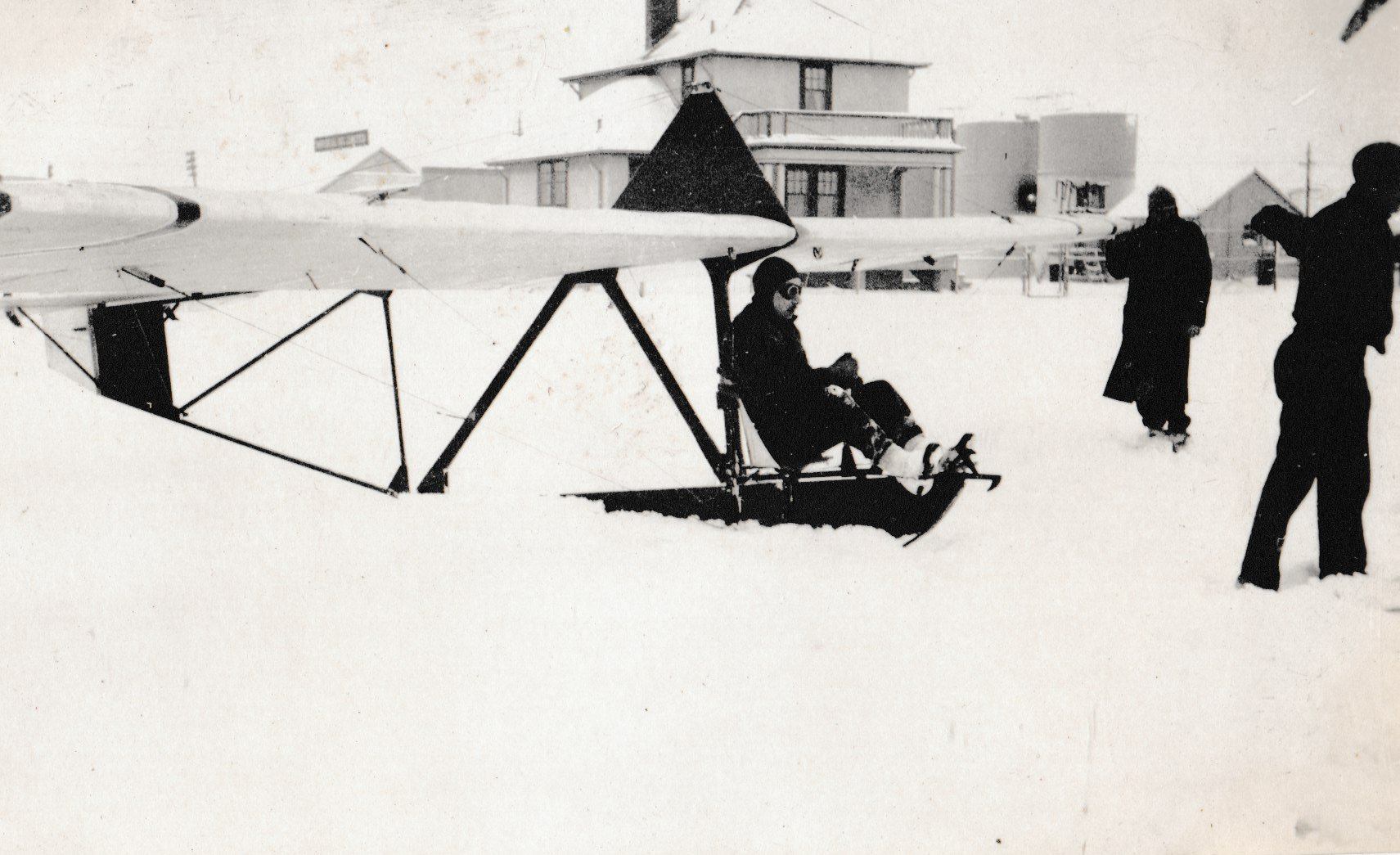 Photograph taken c. 1937 by A. E. ("Ted") Hill